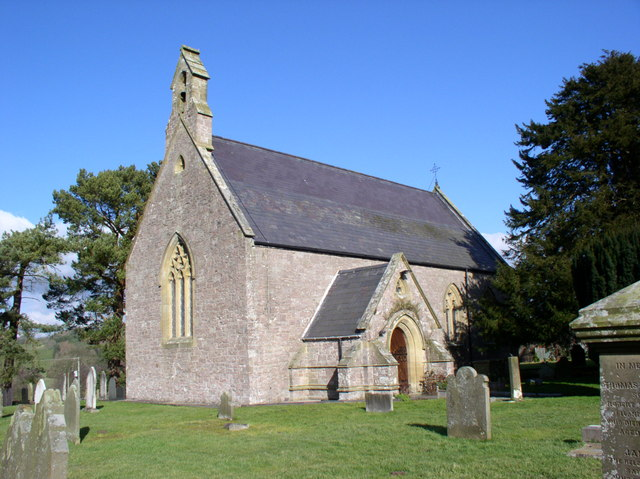 St Tegla's Church. Rebuilt in 1866 on an early medieval foundation.